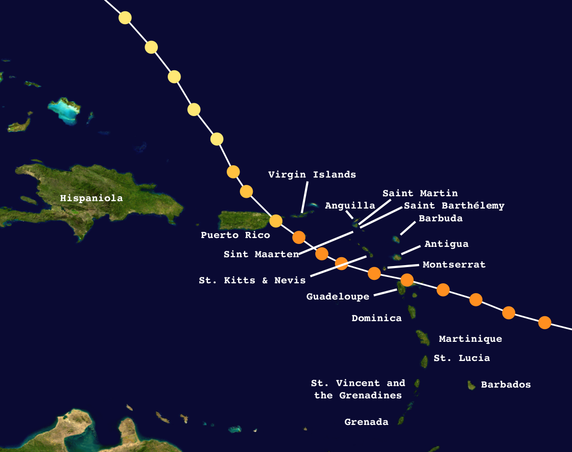 Track map of Hurricane Hugo of the 1989 Atlantic hurricane season. The points show the location of the storm at 6-hour intervals. The colour represents the storm's maximum sustained wind speeds as classified in the Saffir–Simpson scale (see below), and the shape of the data points represent the nature of the storm, according to the legend below. Saffir–Simpson scale Tropical depression≤38 mph≤62 km/h Category 3111–129 mph178–208 km/h Tropical storm39–73 mph63–118 km/h Category 4130–156 mph209–251 km/h Category 174–95 mph119–153 km/h Category 5≥157 mph≥252 km/h Category 296–110 mph154–177 km/h Unknown Storm type Tropical cyclone Subtropical cyclone Extratropical cyclone / Remnant low / Tropical disturbance / Monsoon depression